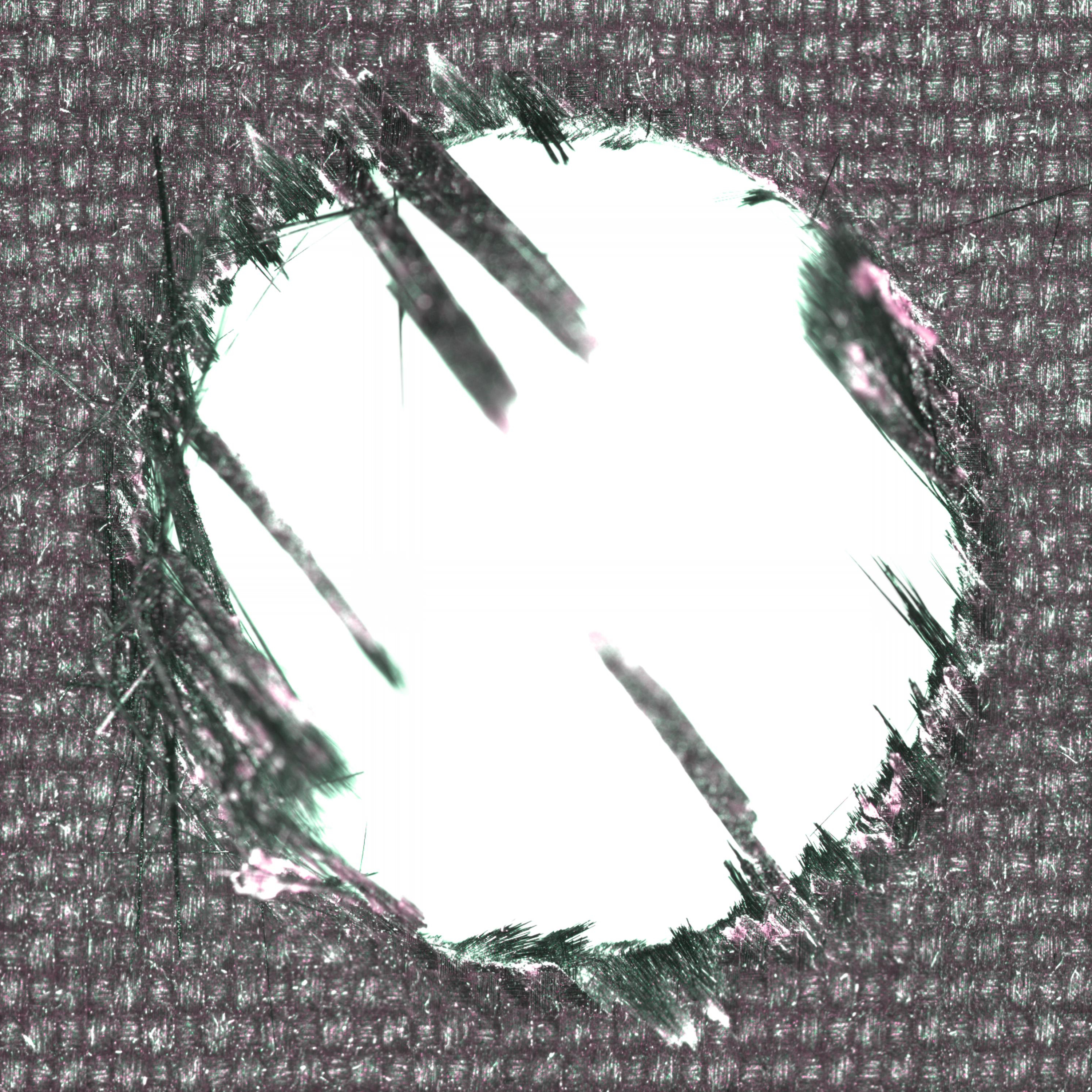 Drilling defects of carbon fiber reinforced polymer (CFRP)